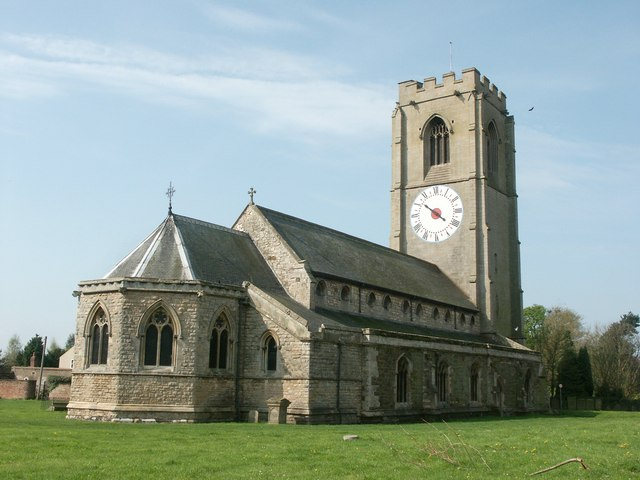 St Michael & All Angels, Coningsby The church of St Michael & All Angels is famous for its one-handed clock, dating from the 17th-century and at 16½ ft, is the largest of its type in the world.